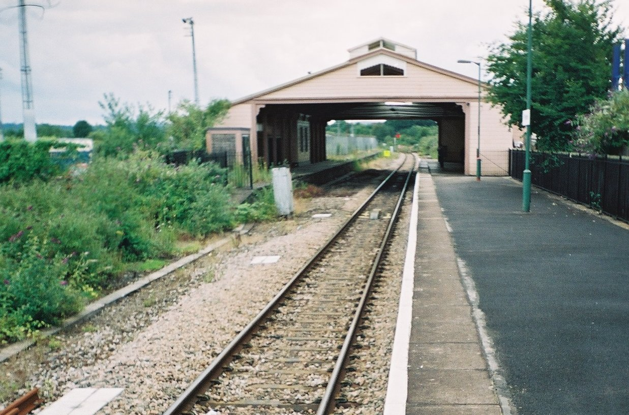 Frome station Somerset England in 2004